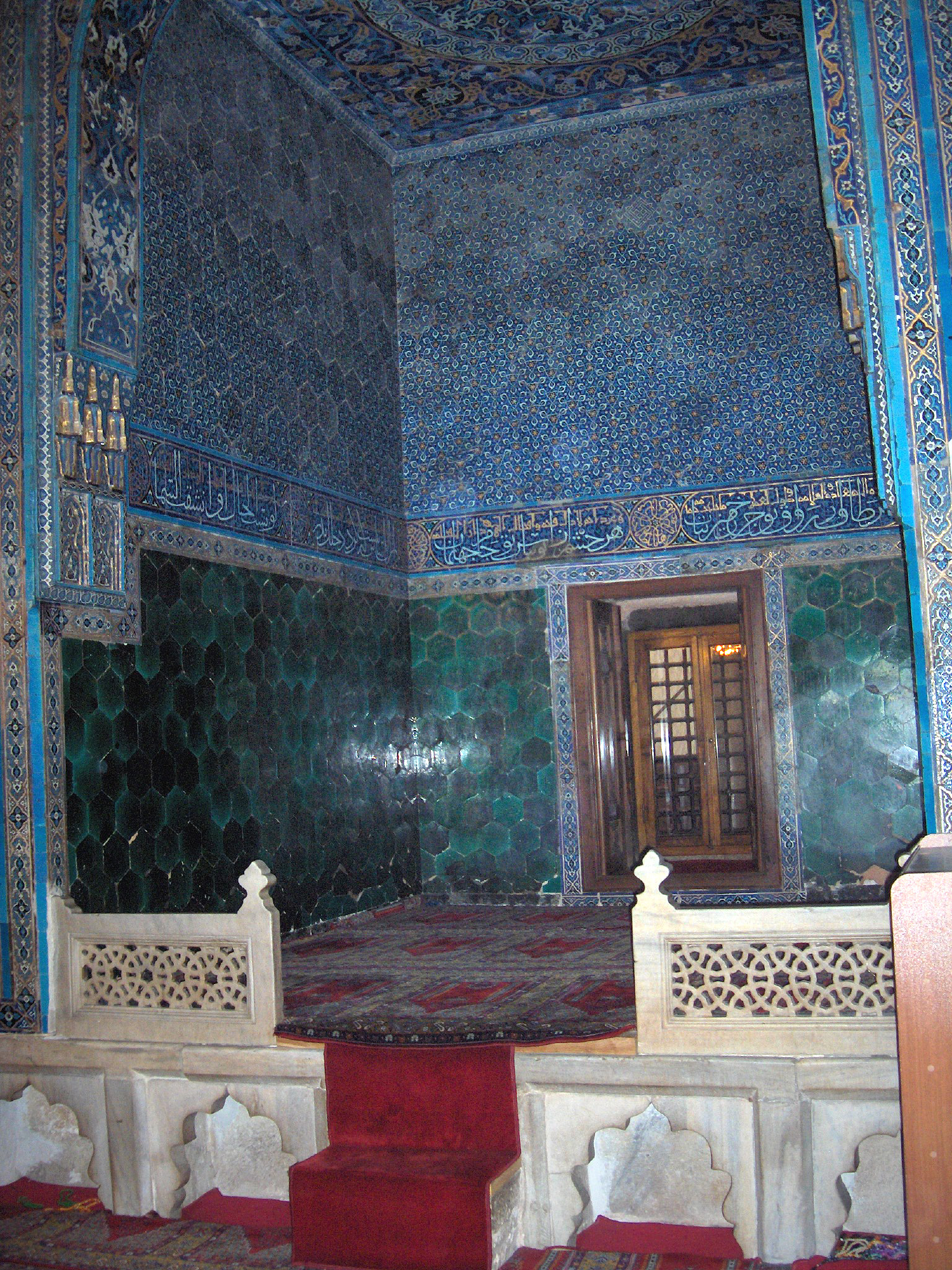 Interior view of the Yeşil Cami (Green mosque) of Bursa, Turkey